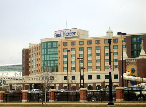 The Grand Harbor Hotel in Dubuque. I took this in March of 2006. Jesster79 01:04, 12 March 2006 (UTC)